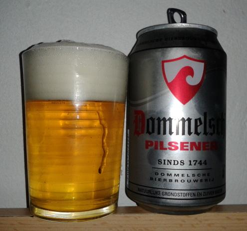 Dommelsch Pilsener (.33 liter can + unrelated glass)